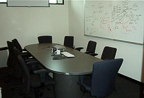 "Wilshire Room," company in Playa Vista May 26, 2006.